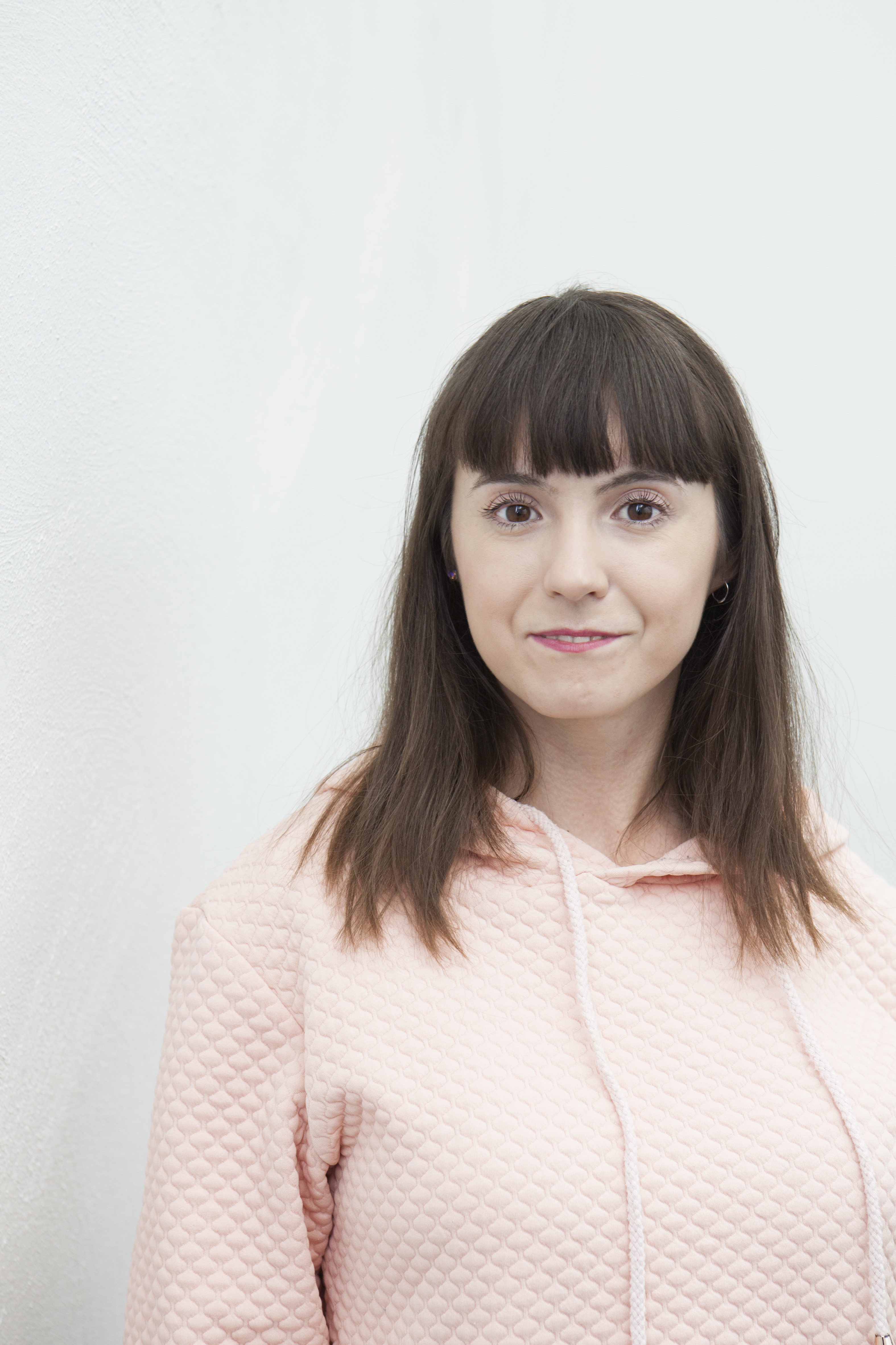 Artist_Katja_Novitskova_in KiasmaPHOTO Finnish National Gallery /Pirje Mykkänen